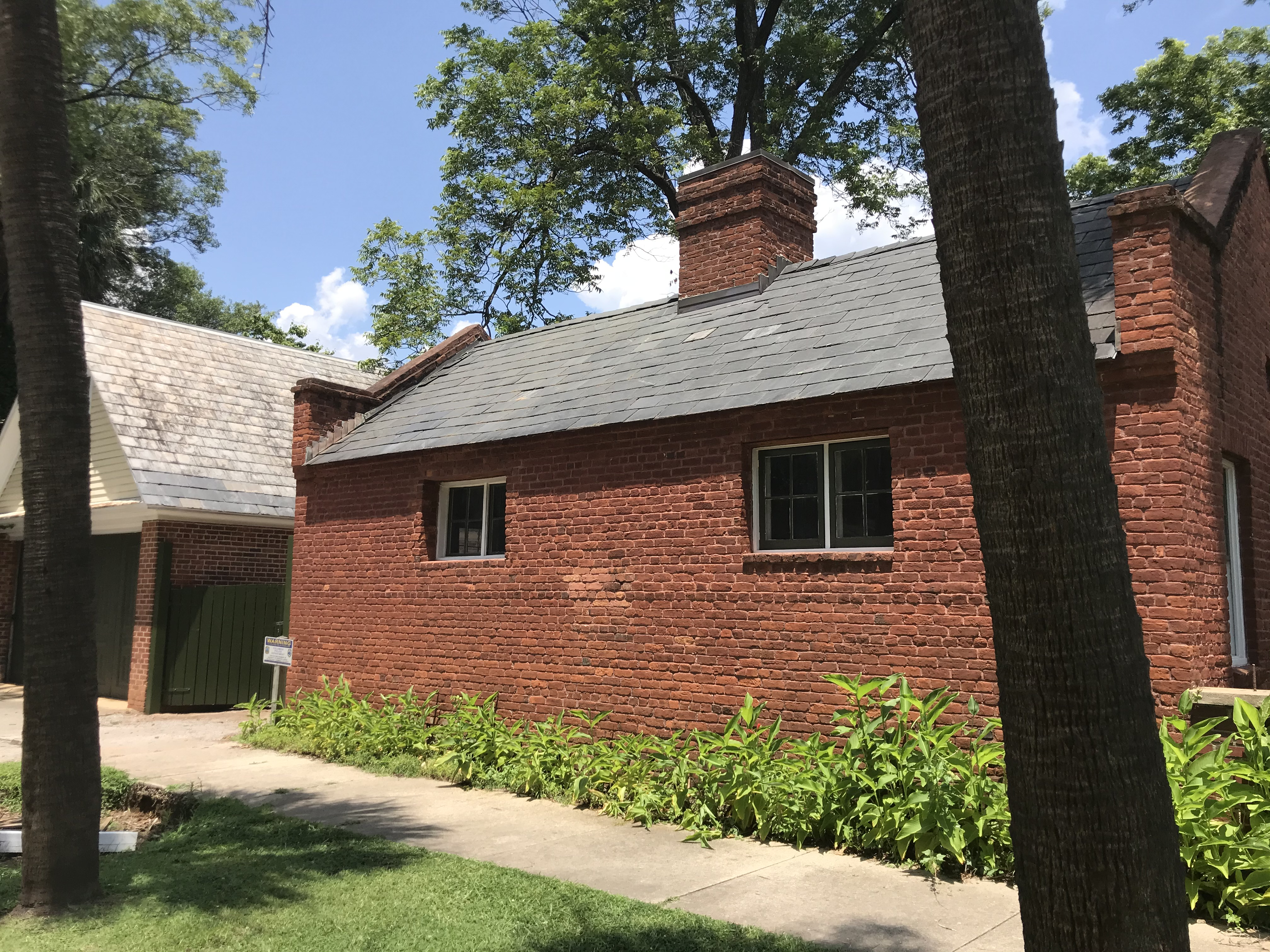 Slave quarters at the Hale–Elmore–Seibels House in Columbia, SC